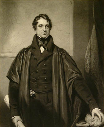 Adam Sedgewick (1785-1873), British geologist, one of the founders of modern geology, at the age of 47